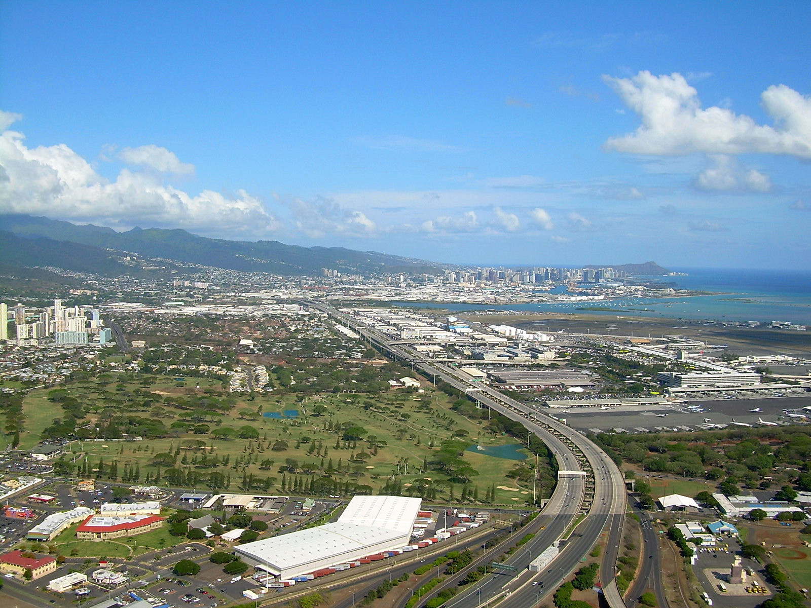 Wide view of Honolulu (far background) and Int. Airport (on right). The large green area to the left of the H-1 is the Navy-Marine Golf Course.